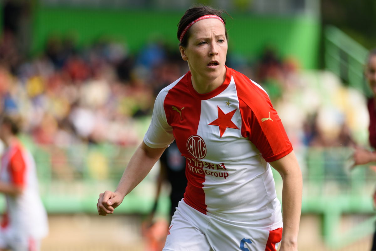 Veronika Pincová during the 2019 Czech Cup Final